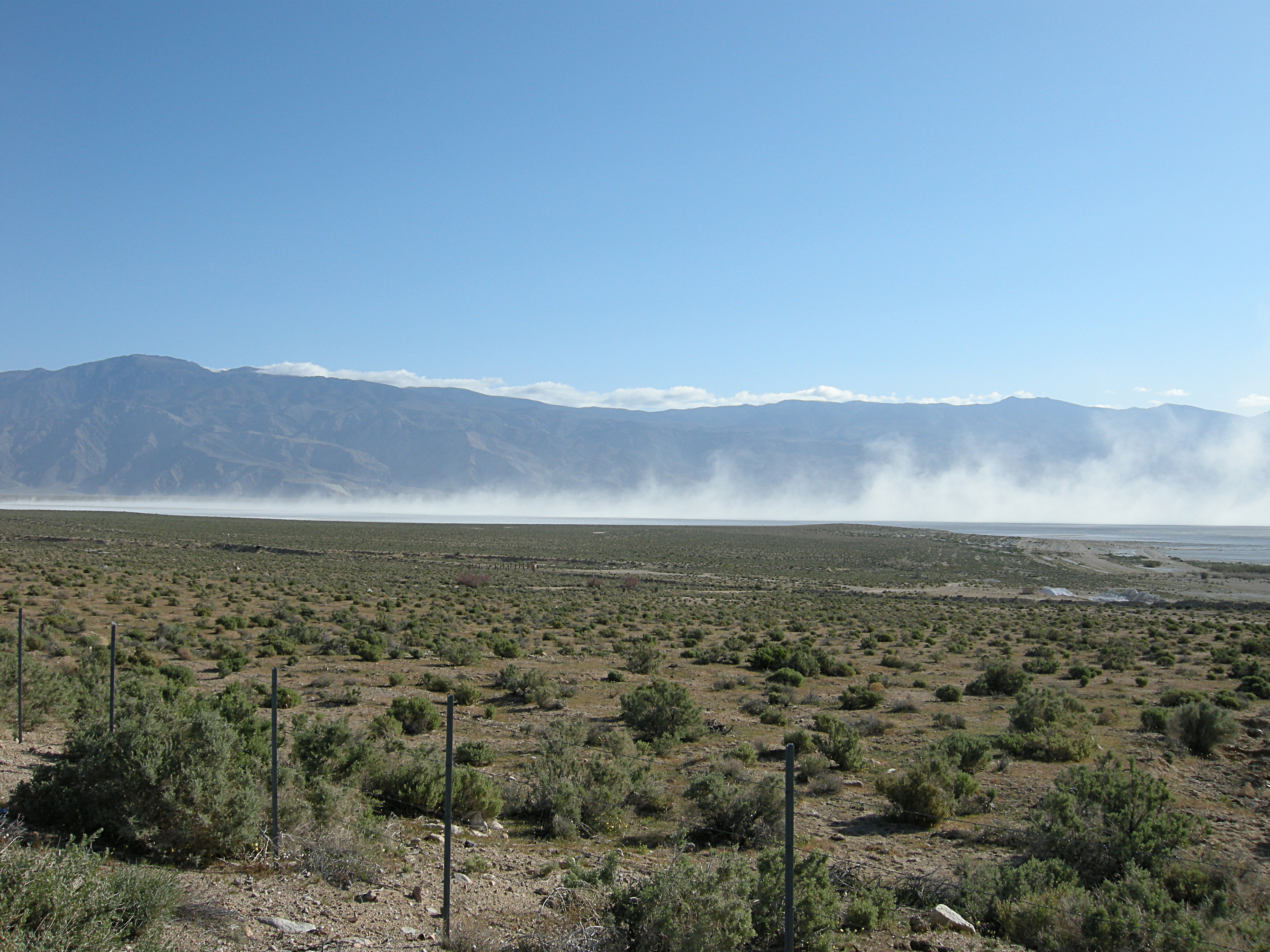 Blowing Alkali Dust at Owens Lake, California.